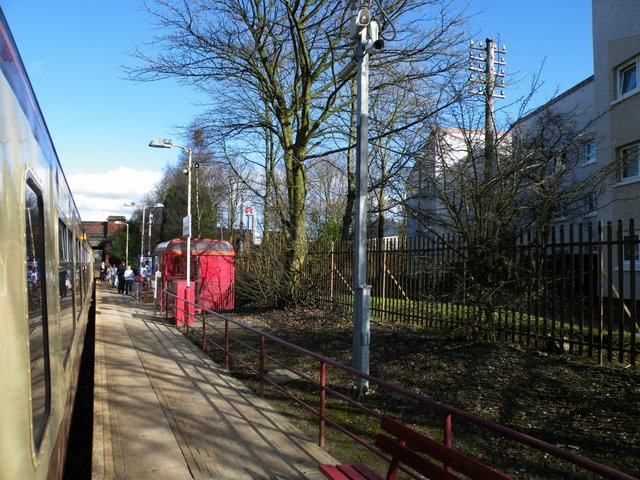 Crookston railway station Original description: Crookston railway station Viewed from a west bound train.